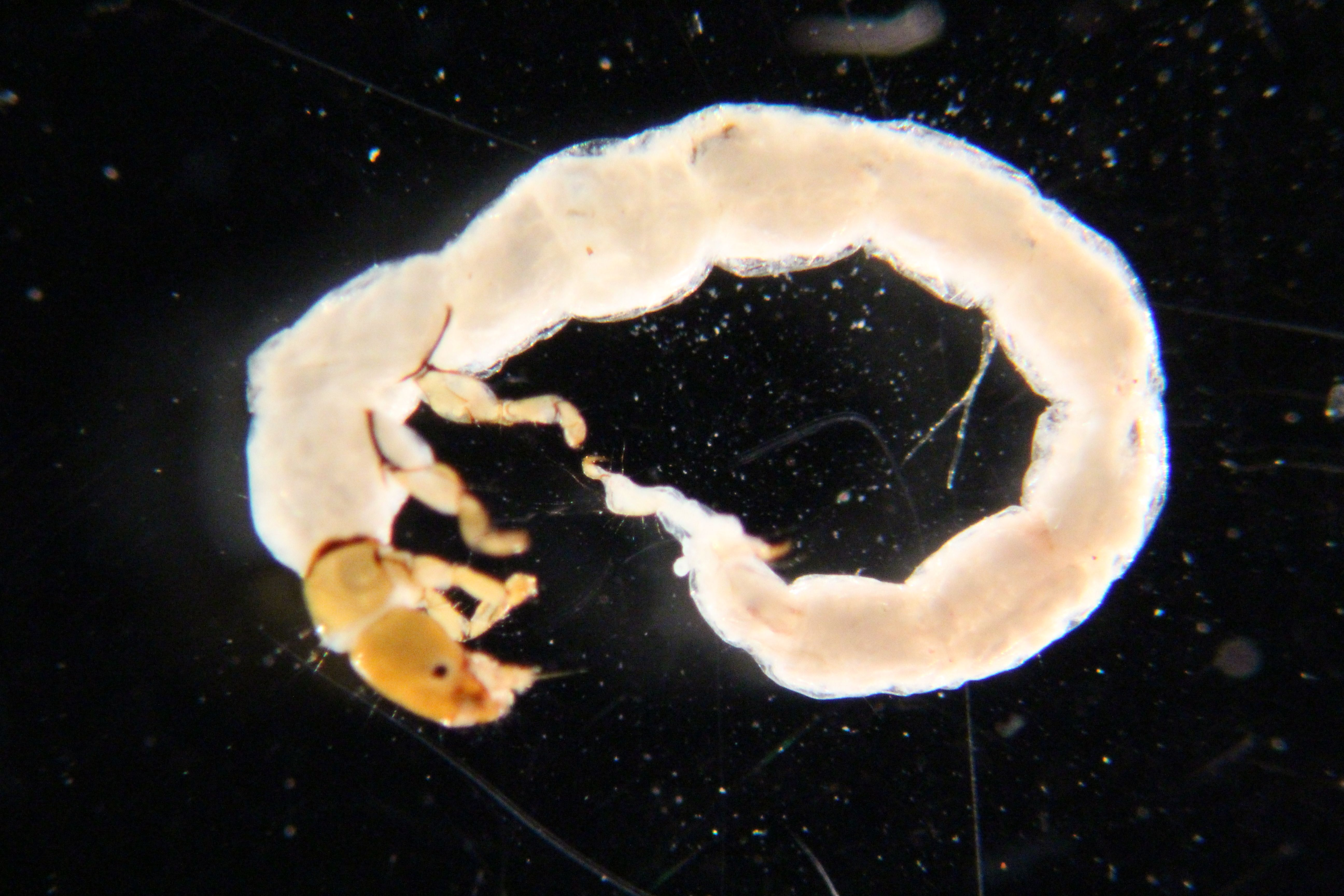 caddisfly larva